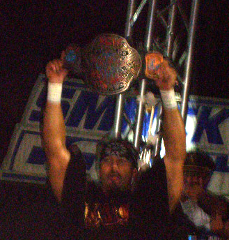 Chavo Guerrero is ECW Champion on SmackDown / ECW Road to Wrestlemania Tour 2008 at Coliseo General Rumiñahui the city of Quito, Ecuador on February 12, 2008.